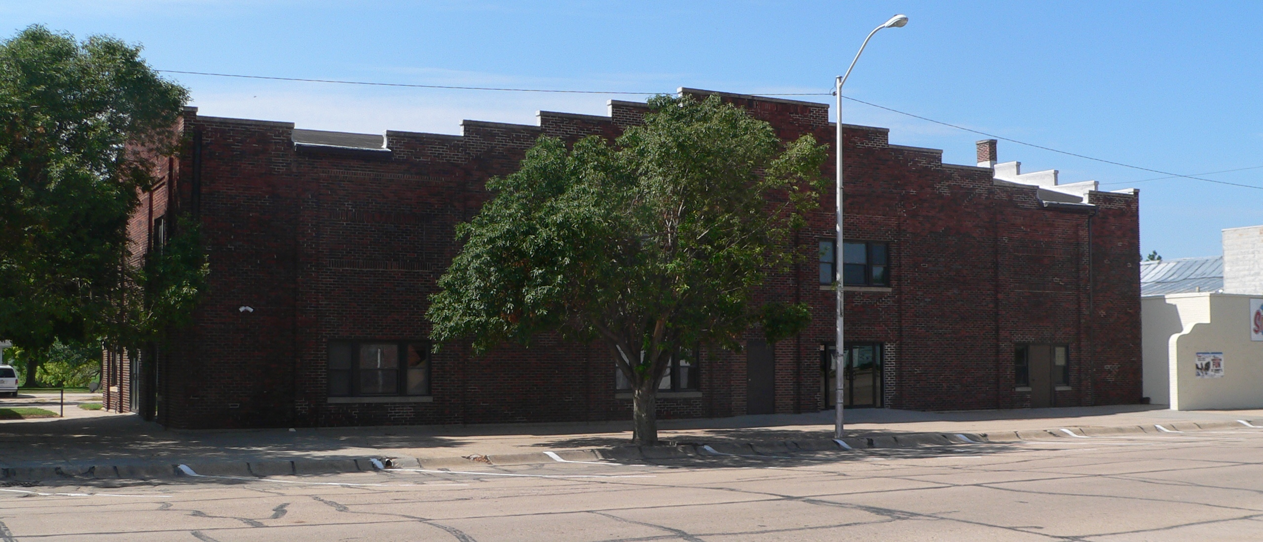 City auditorium in Alma, Nebraska; located on south side of 800s block of West Main Street; seen from the northeast.